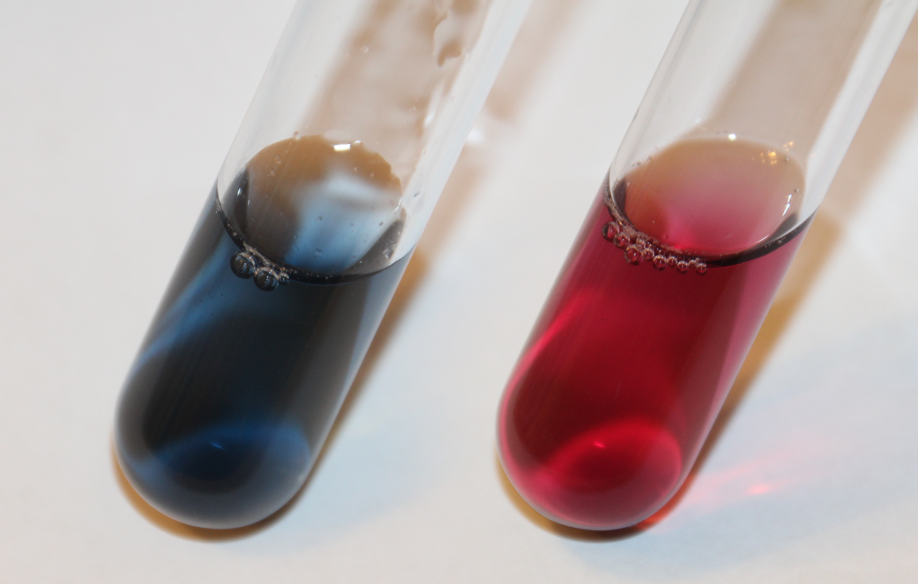 Eriochrome Black T indicator color change, the left solution is free of calcium ions, the right one with calcium ions, both in 1:1 triethanolamine-water solution